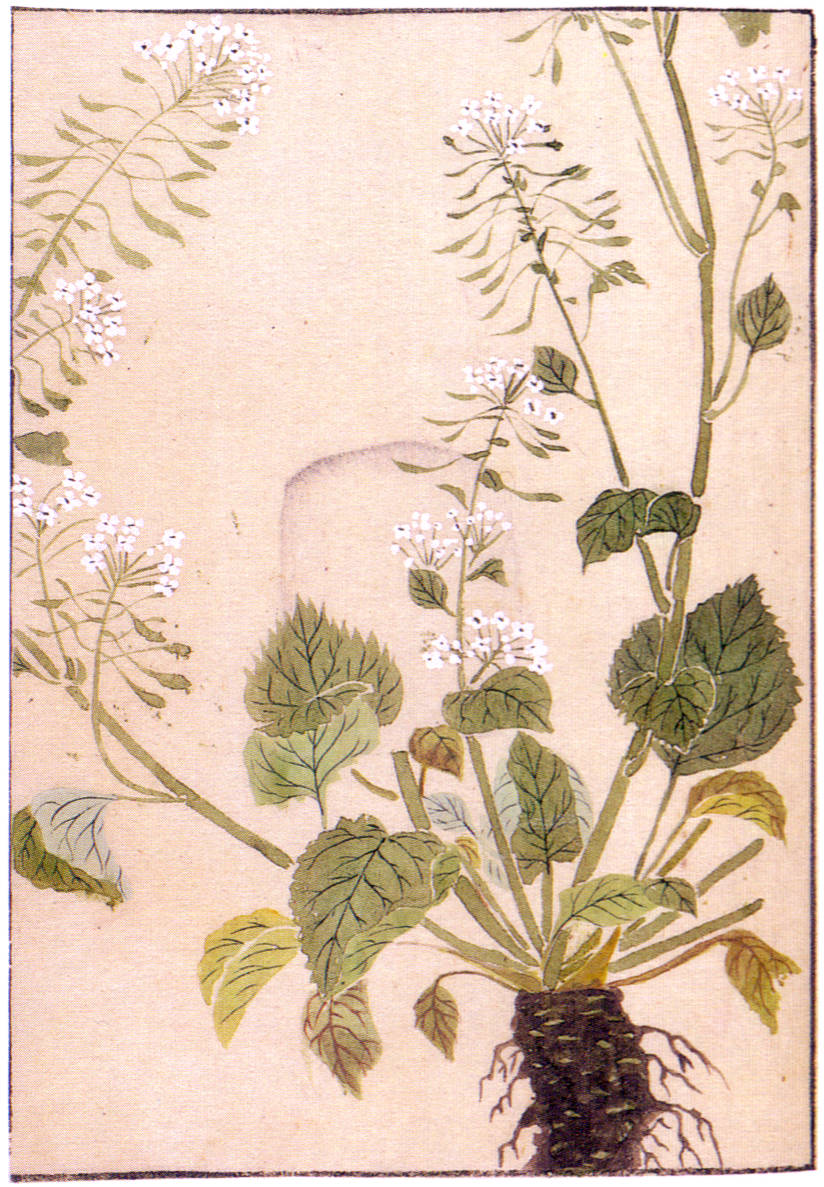 Sketch of a wasabi (Japanese horseradish) plant, published in 1828 in botanical encyclopedia by Iwasaki Kanen (1786-1842).